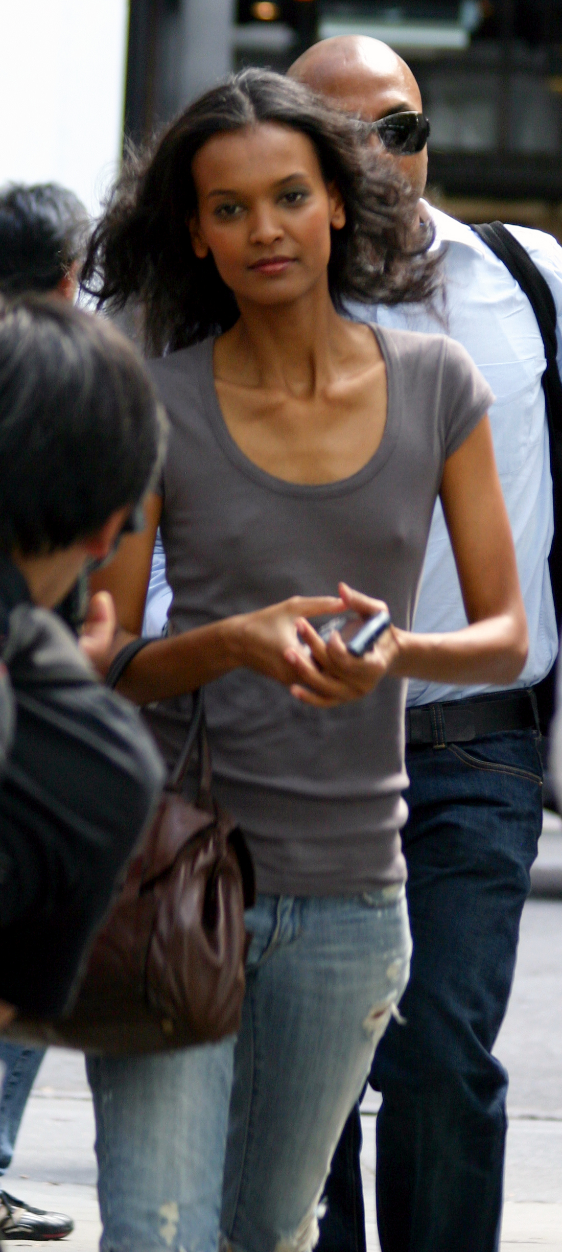 Ethiopian supermodel Liya Kebede enters Bryant Park, New York City during the Mercedes-Benz Fashion Week show on September 9, 2007.